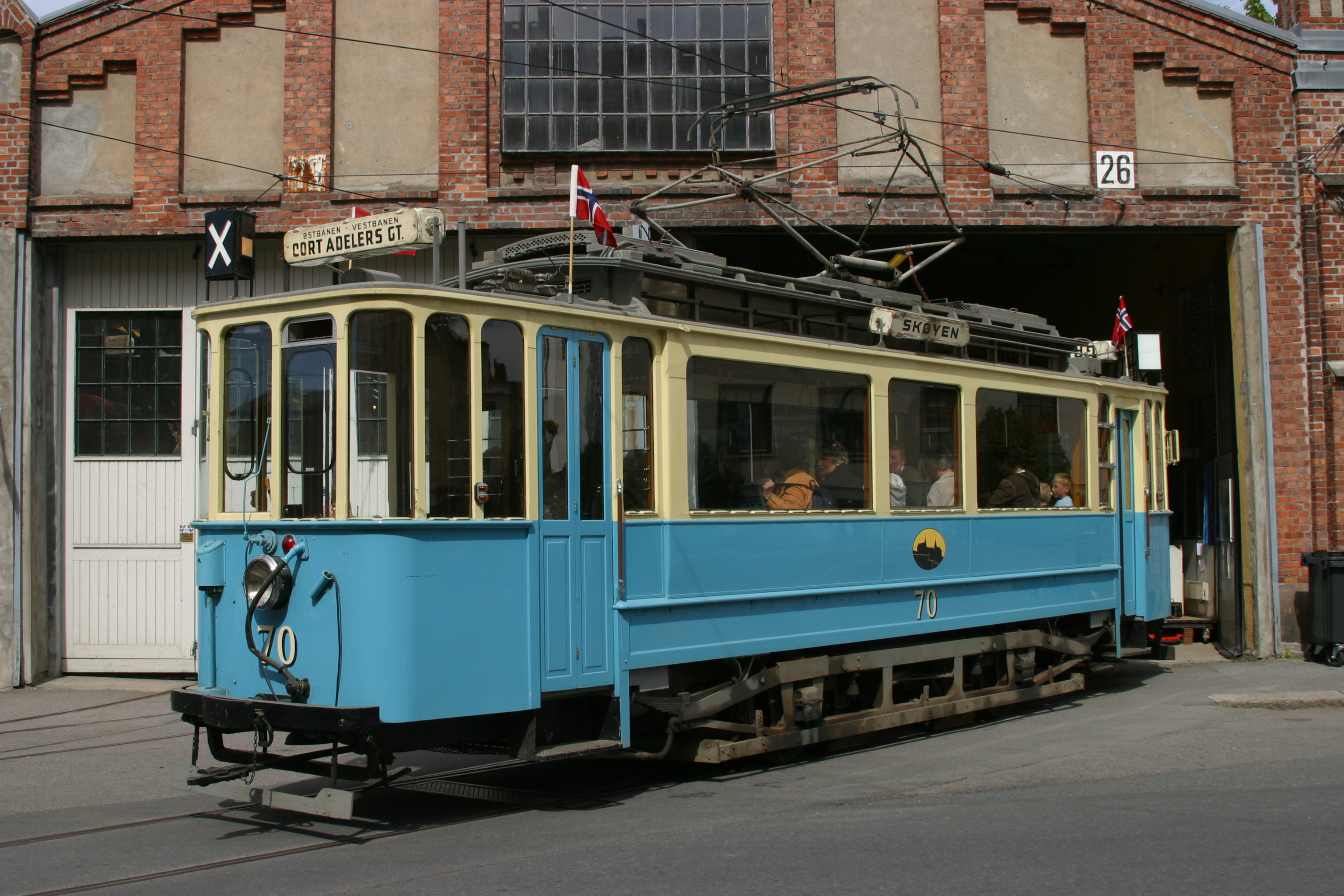 Picture of old Tram in Oslo